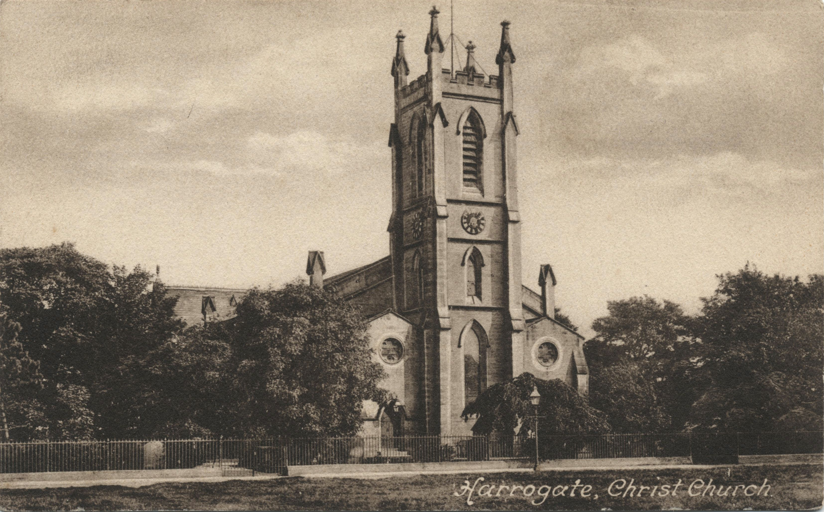 Pre-1914 postcard of Christ Church, Harrogate, North Yorkshire, England. Mawer & Ingle carved the stone reredos which was installed during the 1862 enlargement of the church. However this was replaced by the Comper reredos in 1930. The card was printed by Frith.